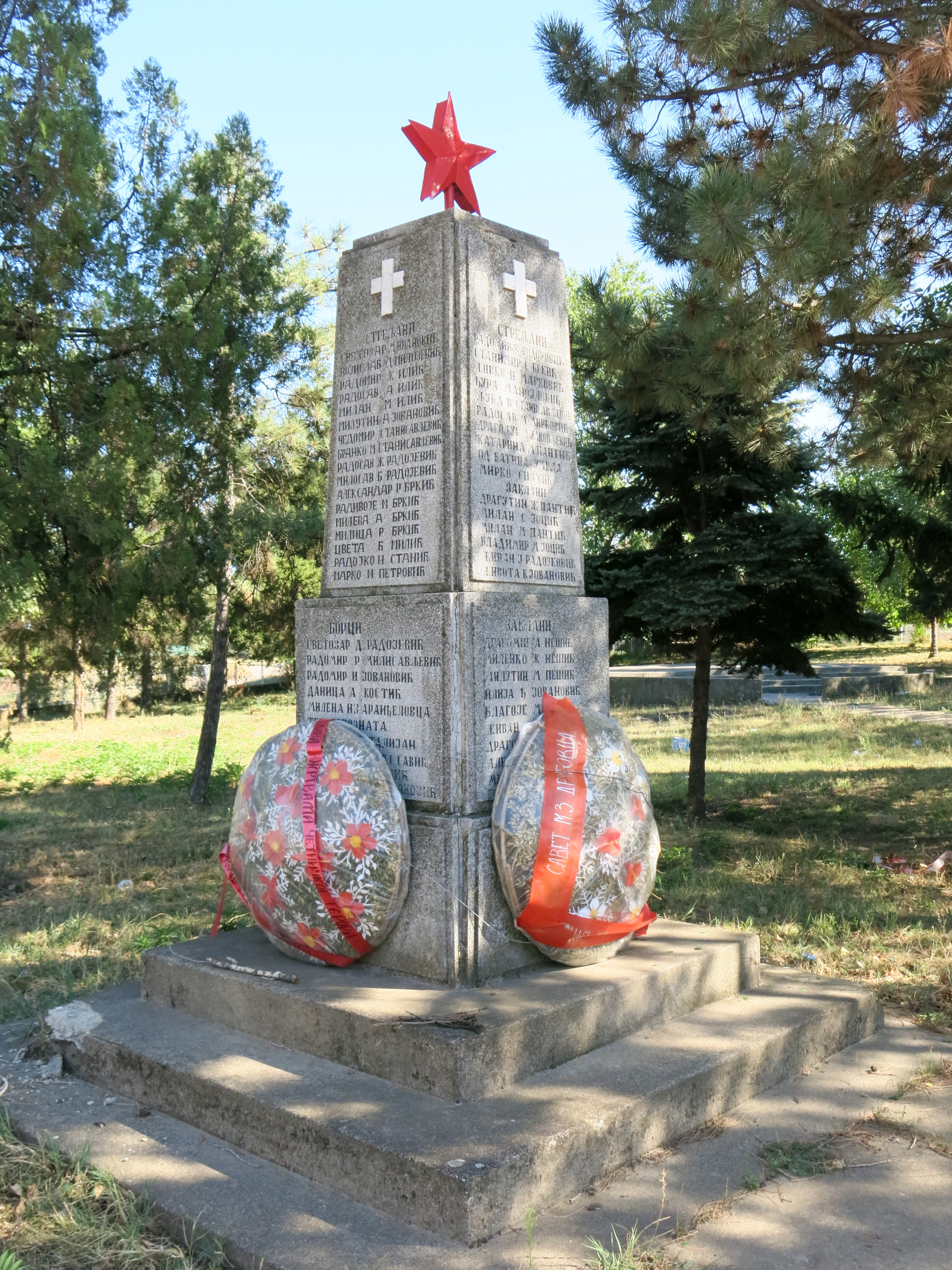 Drugovac, Monument to the victims of the chetnik massacre